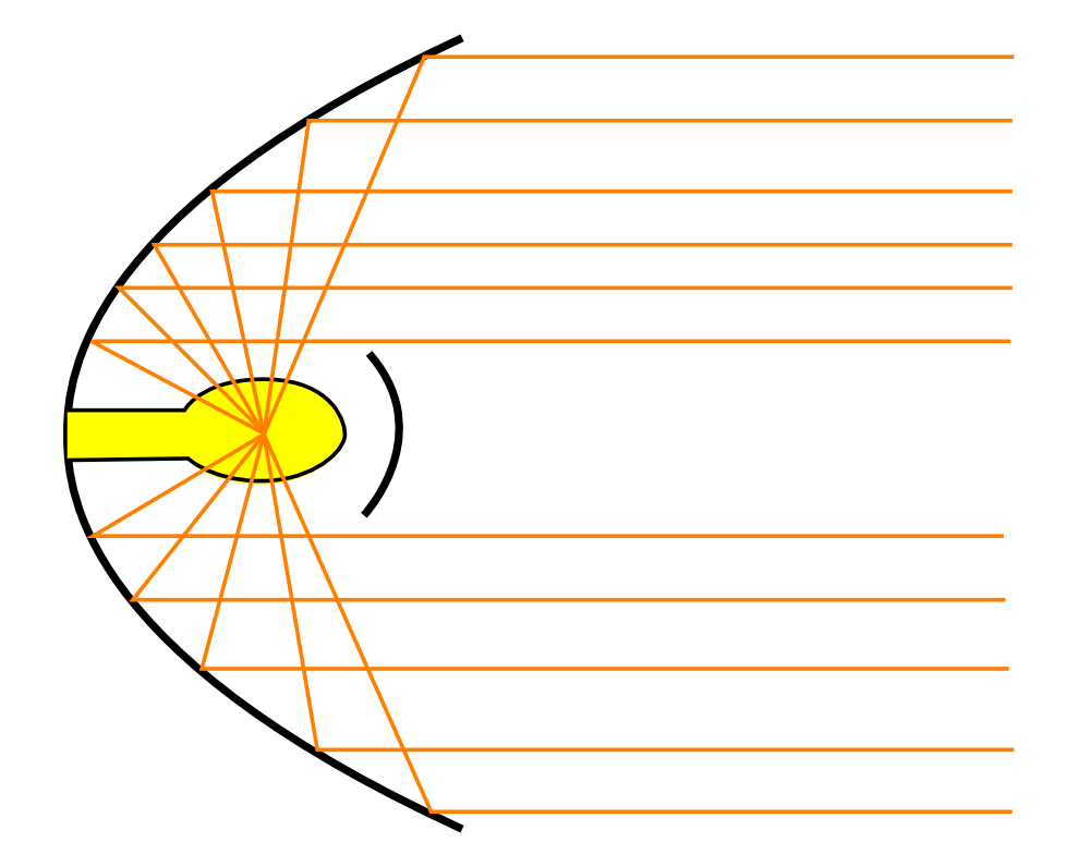 Principle of spotlight function.